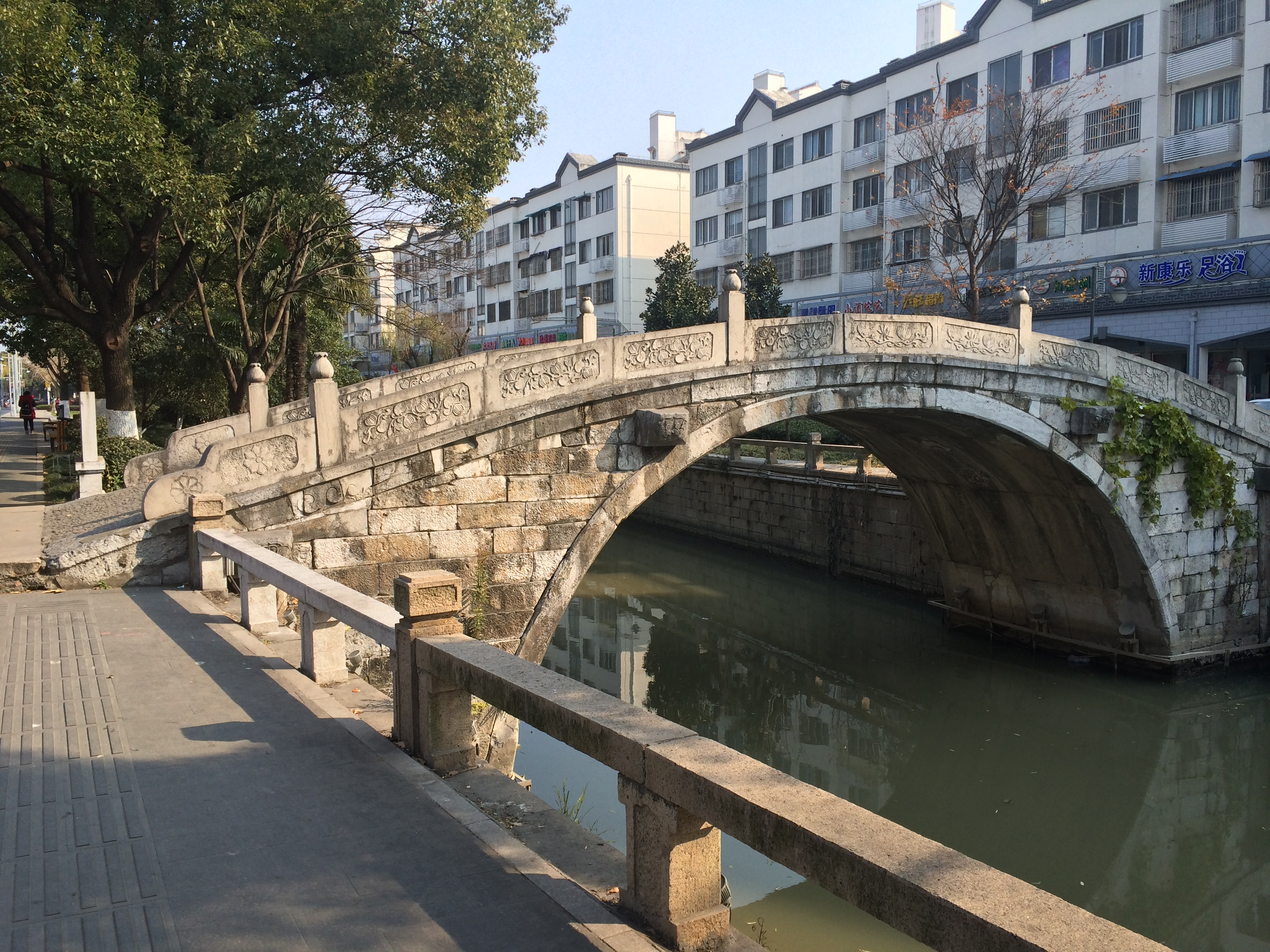 太仓皋桥